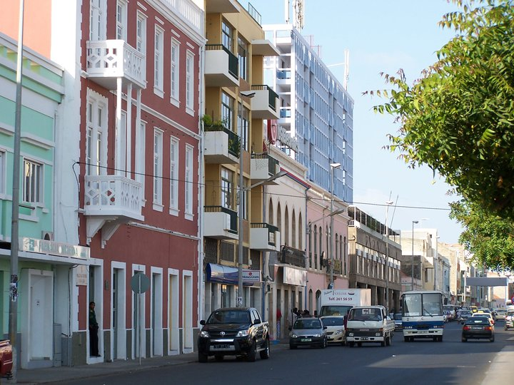 a view of the Ildo Lobo Palace of culture, banks and stores in the Plateau neighborhood of Praia.